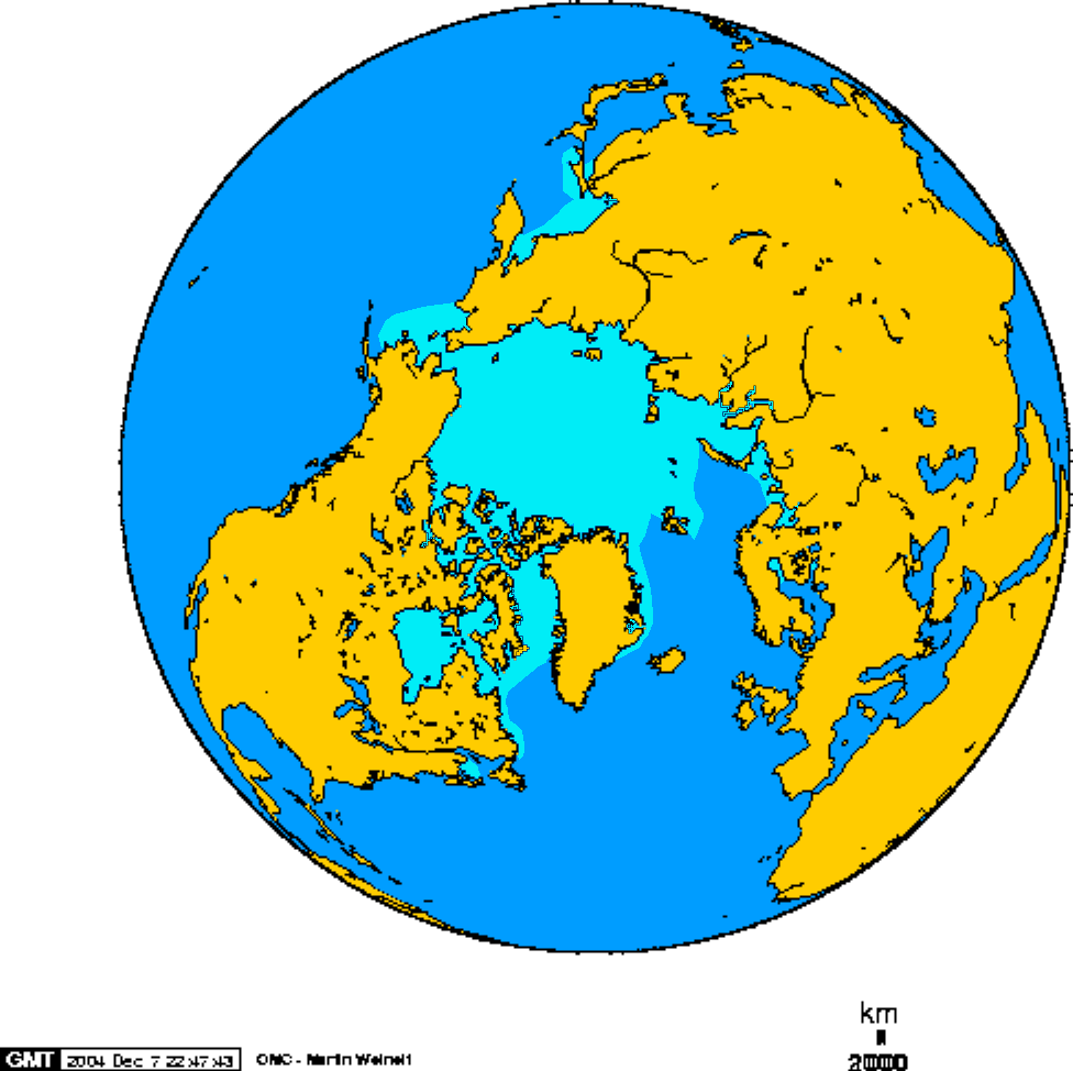 Arctic ice-pack in February This map was initially created using this tool, then adapted, by hand, to recreate the boundaries from the images on this site. See also left|thumb|North pole September ice-pack 1970-2002